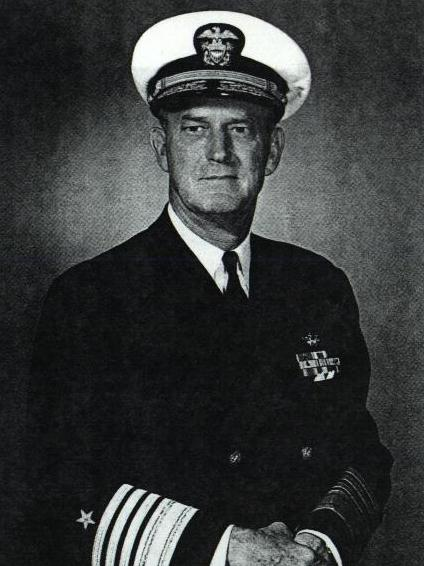 David L. McDonald, 17th Chief of Naval Operations